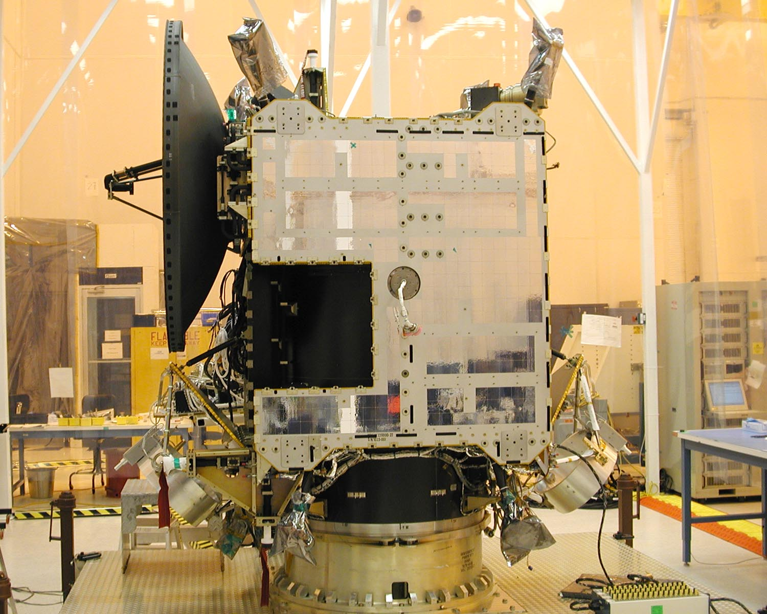 Spacecraft after installation of high gain antenna